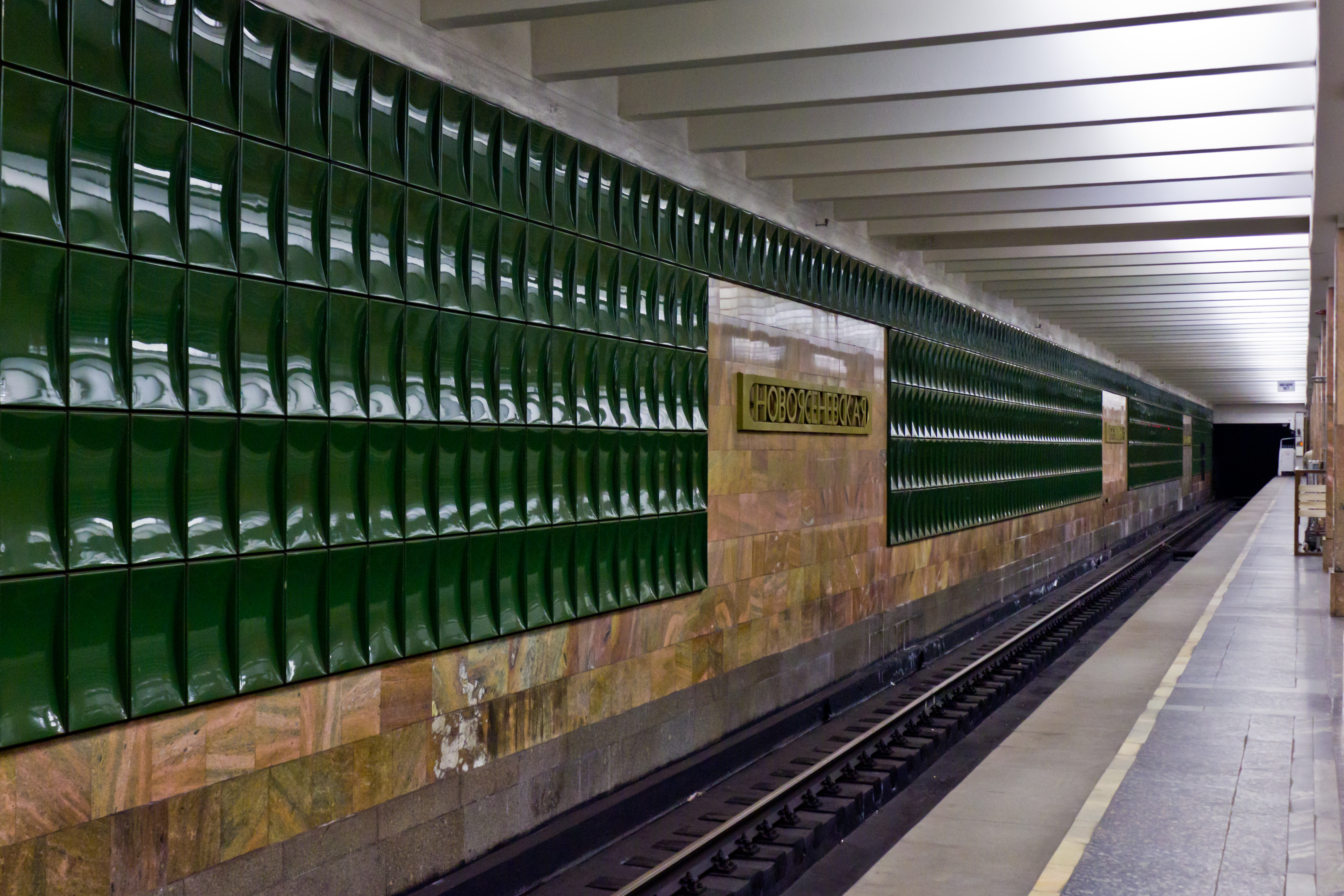 Novoyasenevskaya Moscow Metro station.